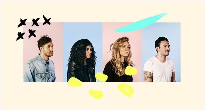 Promotional images used for the band album "Youth Revival". The images features (in order) Aodhan King, Laura Toggs and Alexander Pappas.